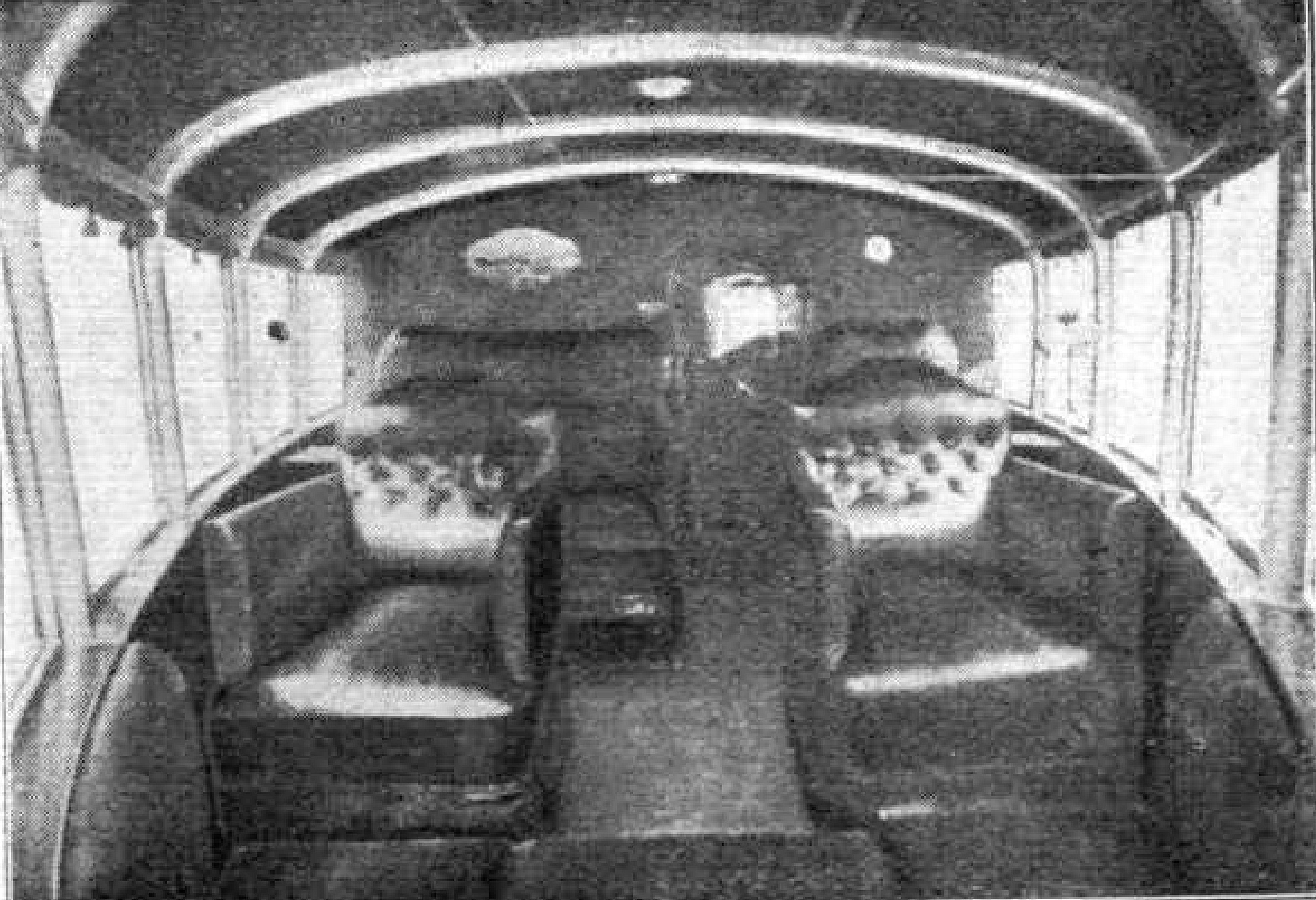 The cabin of the Dornier Gs.II facing aft.